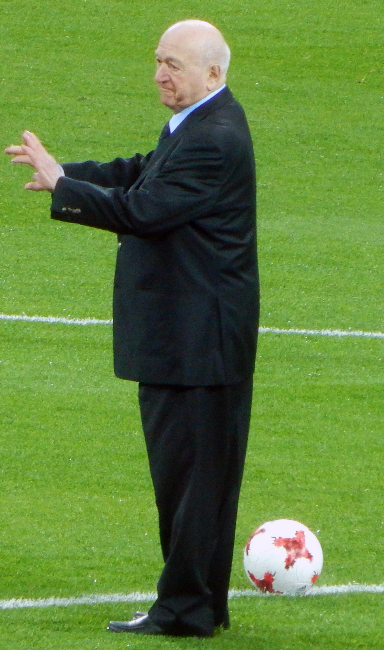 This photo was taken on March 28, 2017 during the exhibition game between Russia and Belgium. That game was held in Adler (City of Sochi) at the Fisht stadium.